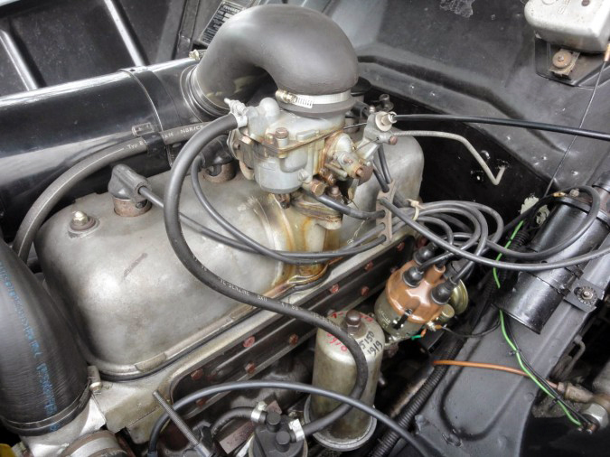 Left front view of the 1468 cc, 58hp SAE carburetted Peugeot TN3 engine in a 1961 Peugeot 403 U Break. This car, chassis number 2887909, is a type 403B5 and was built in November 1961.